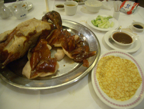 Peking duck